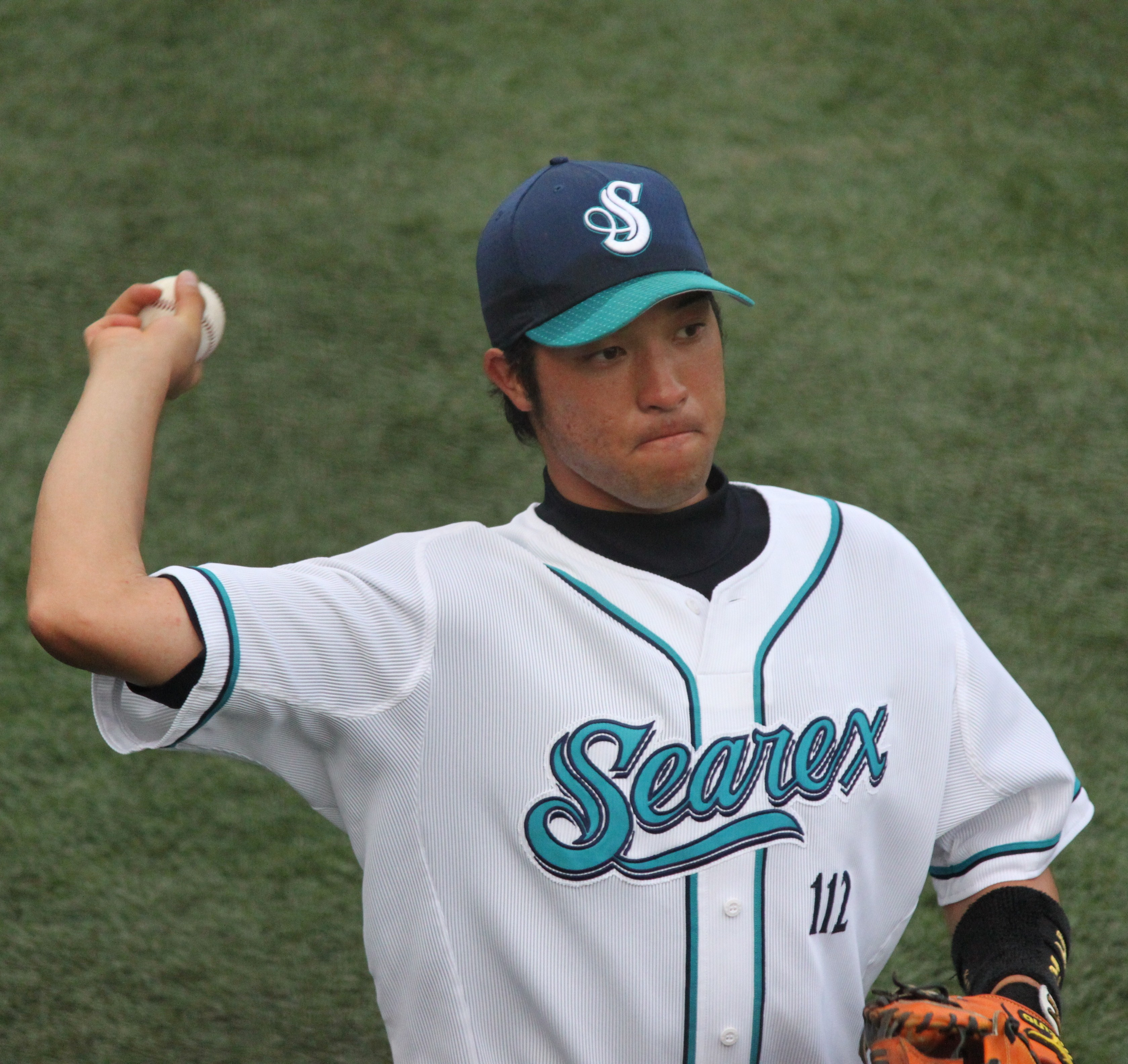 Masato Sugimoto, catcher of the Shonan Searex, at Yokosuka Stadium.